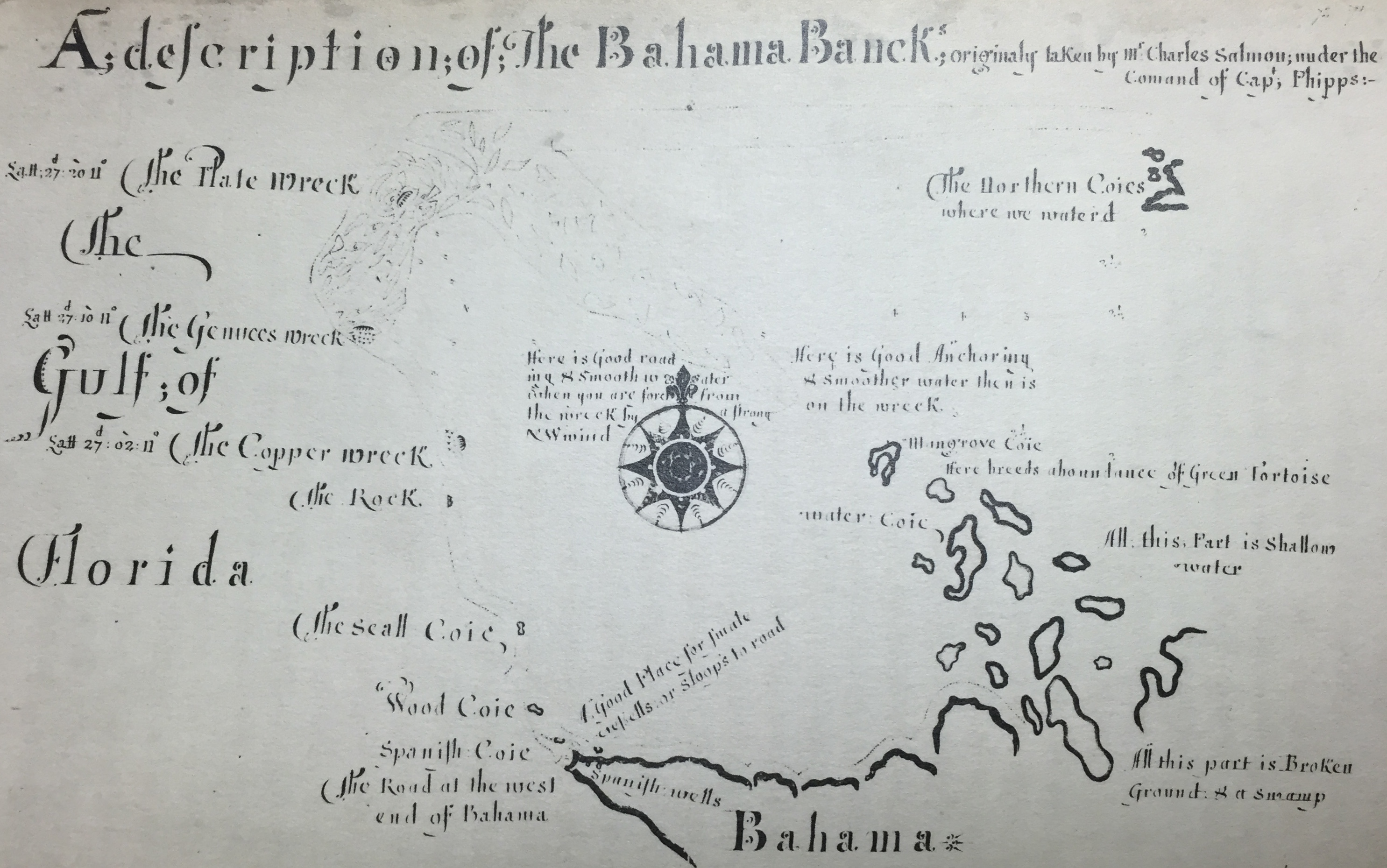 Map from 1684 Voyage of Rose